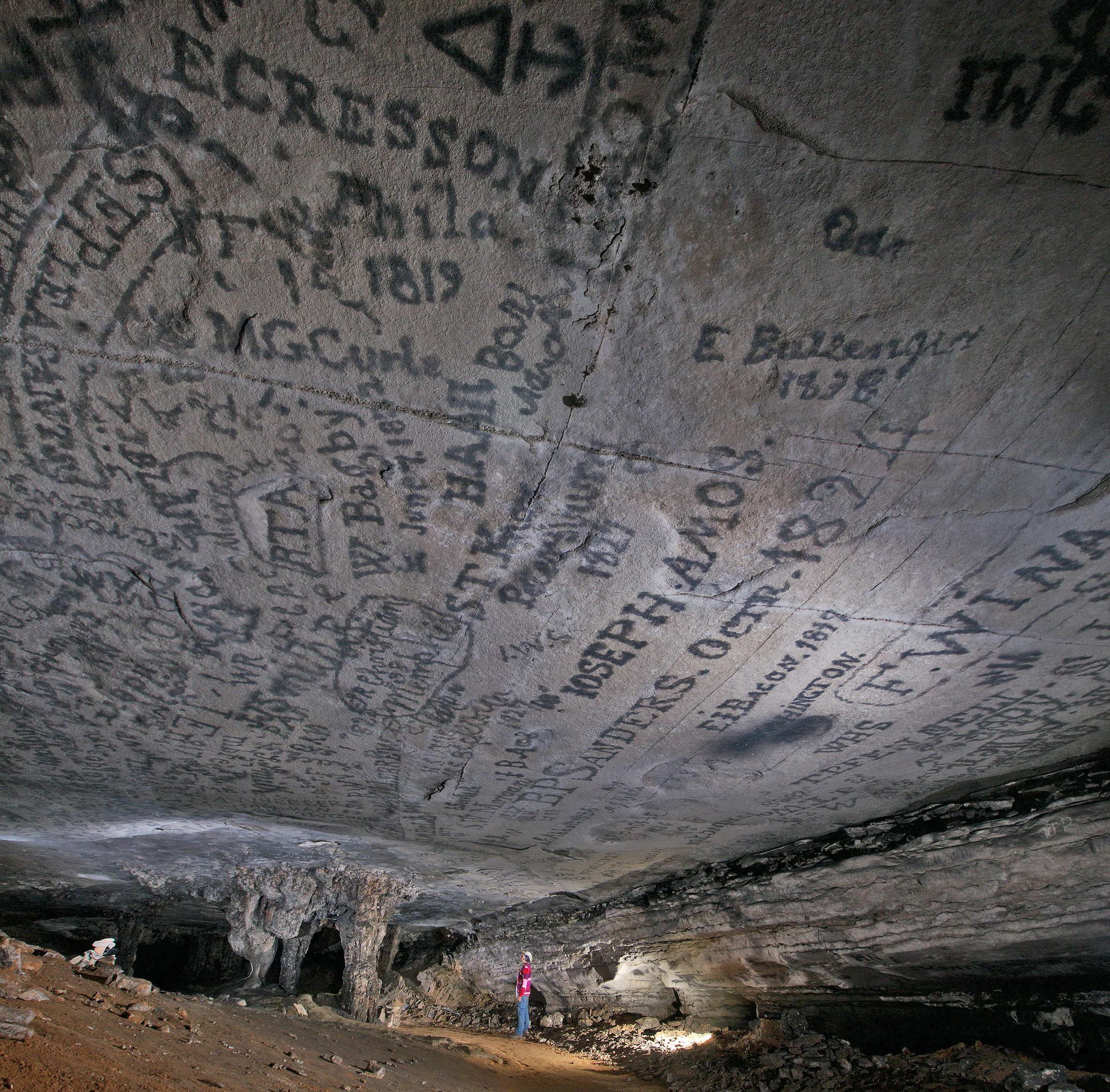 Historic signatures adorn the ceiling in Gothic Avenue, seen on tours offered at Mammoth Cave.